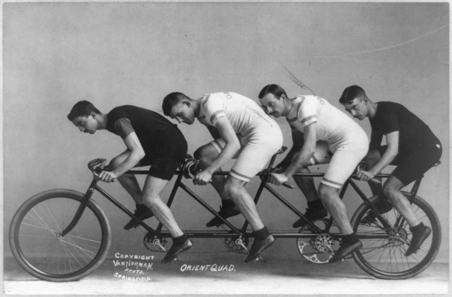 Tandem, Bike for four